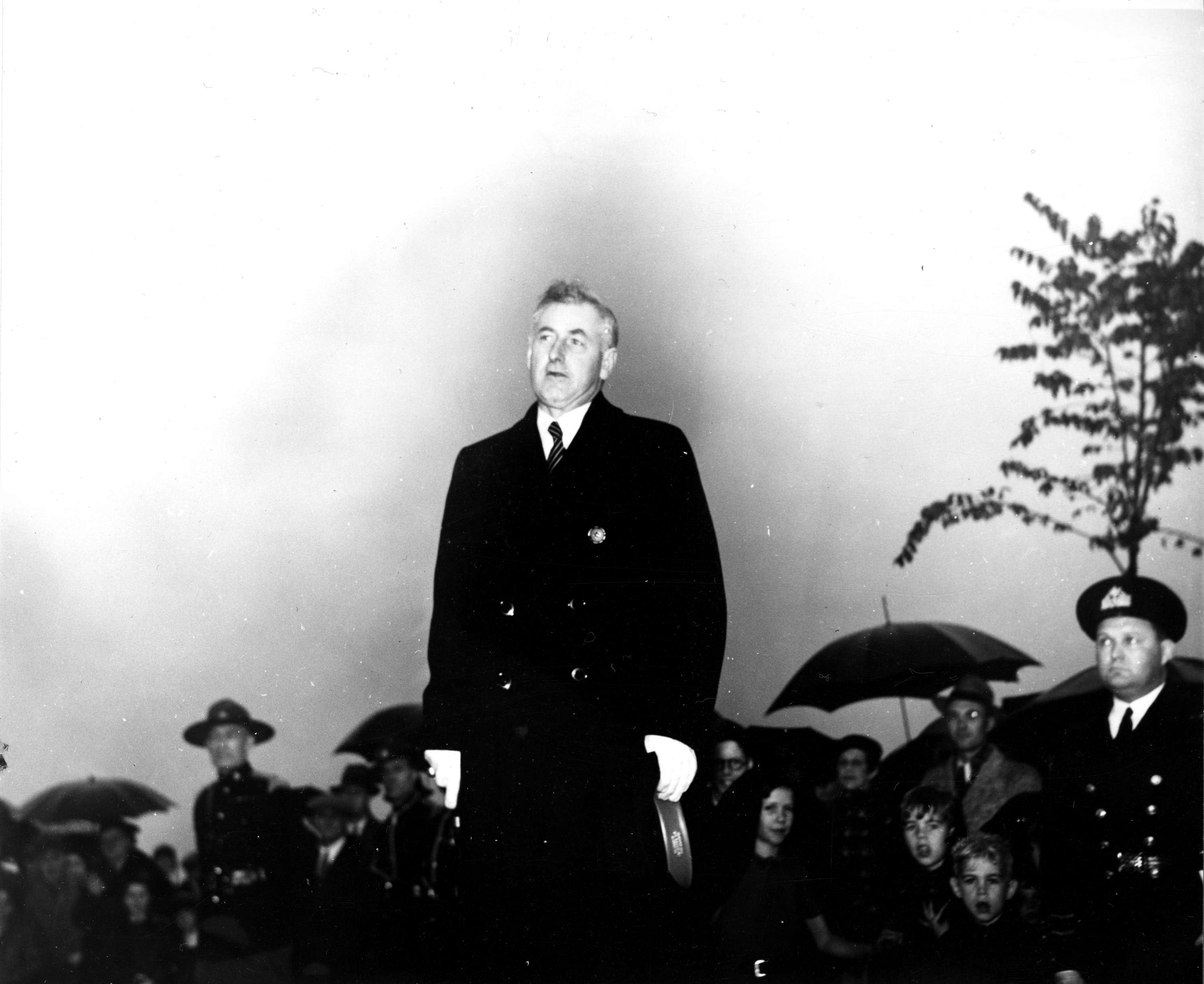 Mayor Miller of Vancouver dedicates HMS Vancouver foremast at Kitsilano Beach.